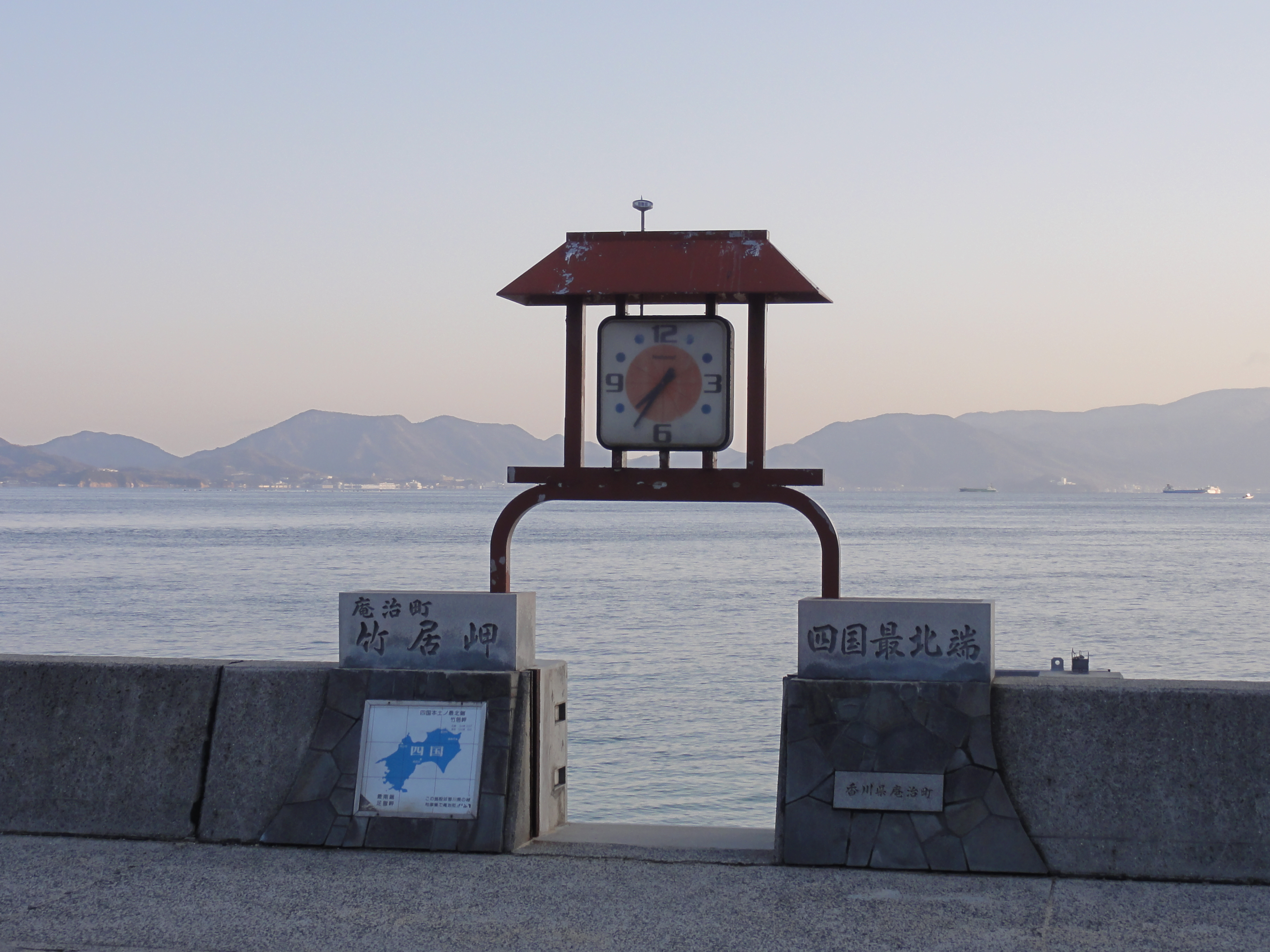 Monument of Shikoku Northernmost,Kagawa pref.,Japan